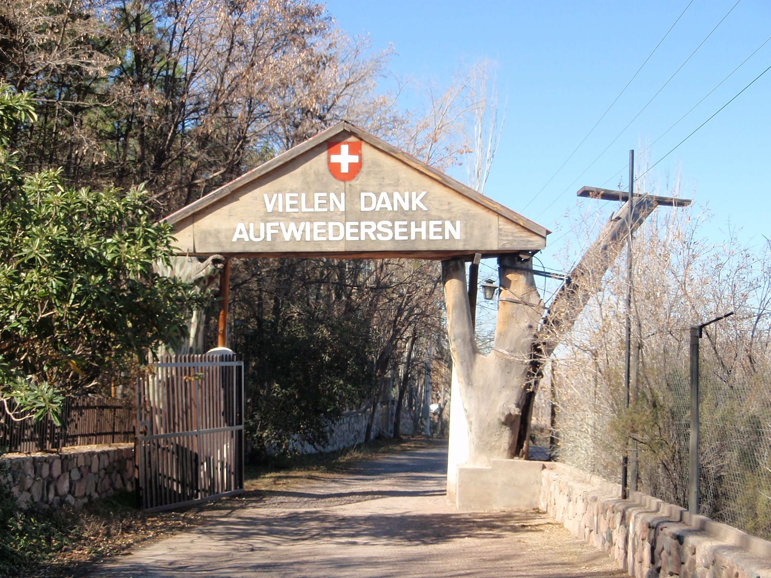 Main entrance to the swiss colony in Cacheuta, Mendoza Argentina.